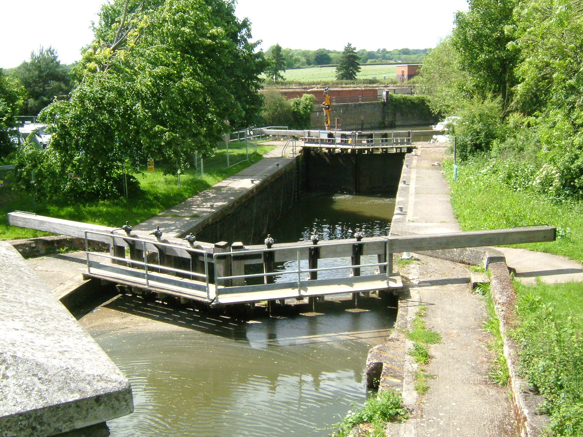 Hampstead Lane Canal, Hampstead Lock at Yalding on the River Medway, Kent, looking downstream taken from the road bridge. At Yalding there is an automatic sluice where the river drops from +11.2m to +7.41m above mean sea level. The navigation bears left through the Hampstead Lane Canal, and the Hampstead Lock, the main stream drops over the weir and sluice and is joined by the River Teise (Lesser Teise) and both pass under Twyford Bridge. - Google Maps - Google Earth The river then flows in a loop towards Yalding, where it is joined by the River Beult which has been joined by the River Teise (the other bit!) and has passed under Town Bridge. Twyford Bridge is not navigable. Hampstead Lock lies 15.2km from Allington. The canal then rejoins the rivers.